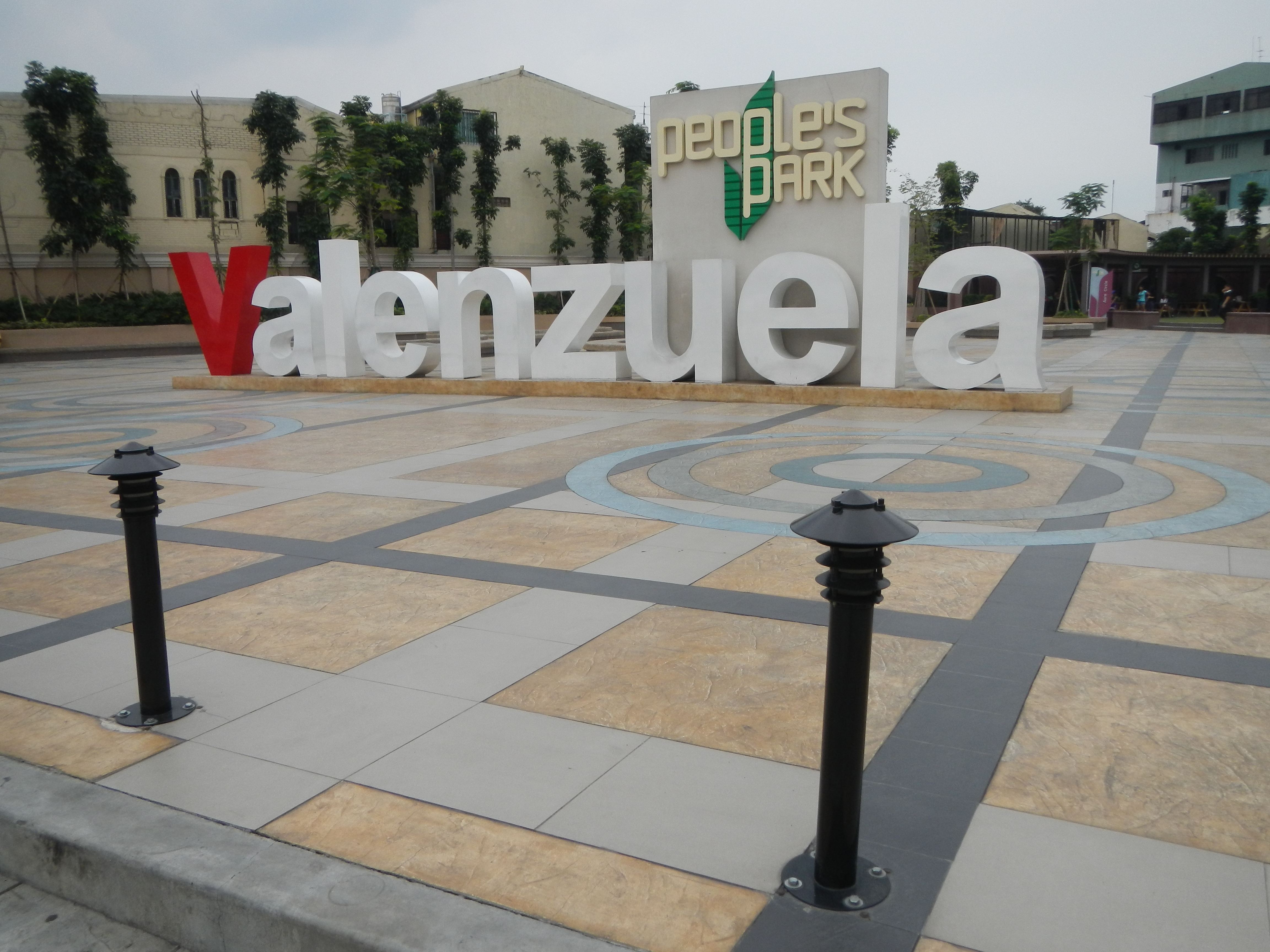 People's Park (Valenzuela), People's Park (Valenzuela), (along MacArthur Highway, beside the being contructed Valenzuela Town Centre in Karuhatan and Malinta, Valenzuela City, A. Pablo Street. Metro Manila, Interactive Fountain Night portrait Coordinates: 14°41′30.0474″N 120°58′12.201″E Area 1.3 ha or 3.2 acres Opened February 14, 2015 -Interactive Fountain, Aero Circle, Amphitheater, Picnic Garden, Children's Playpark and Senior's Garden).